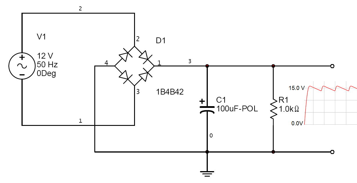 RC-Filter Rectifier.